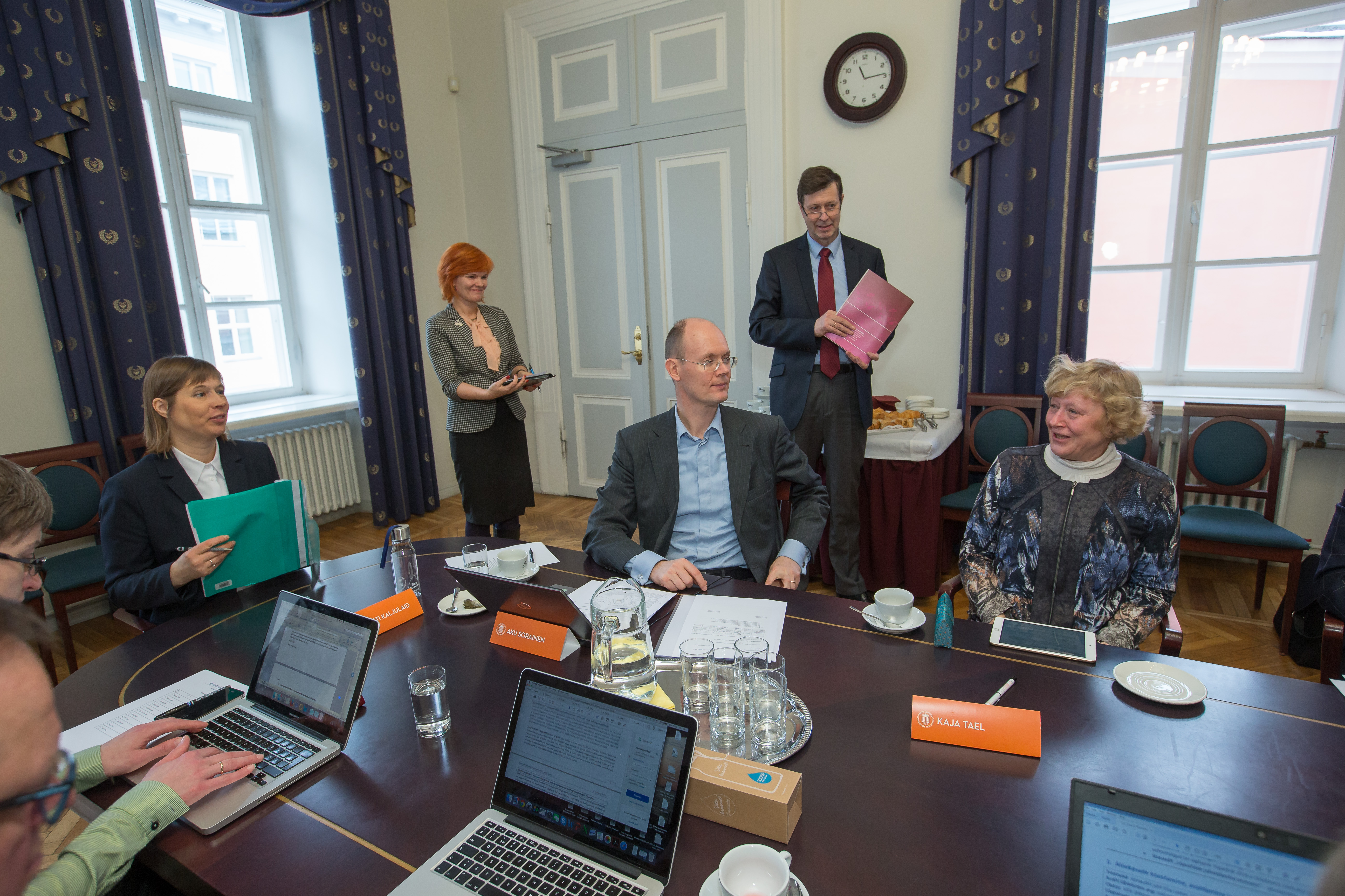 Council of the University of Tartu meeting.